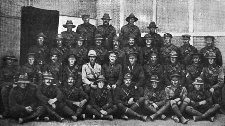 The Diehards," photographed at Zeitoun immediately after the Evacuation.